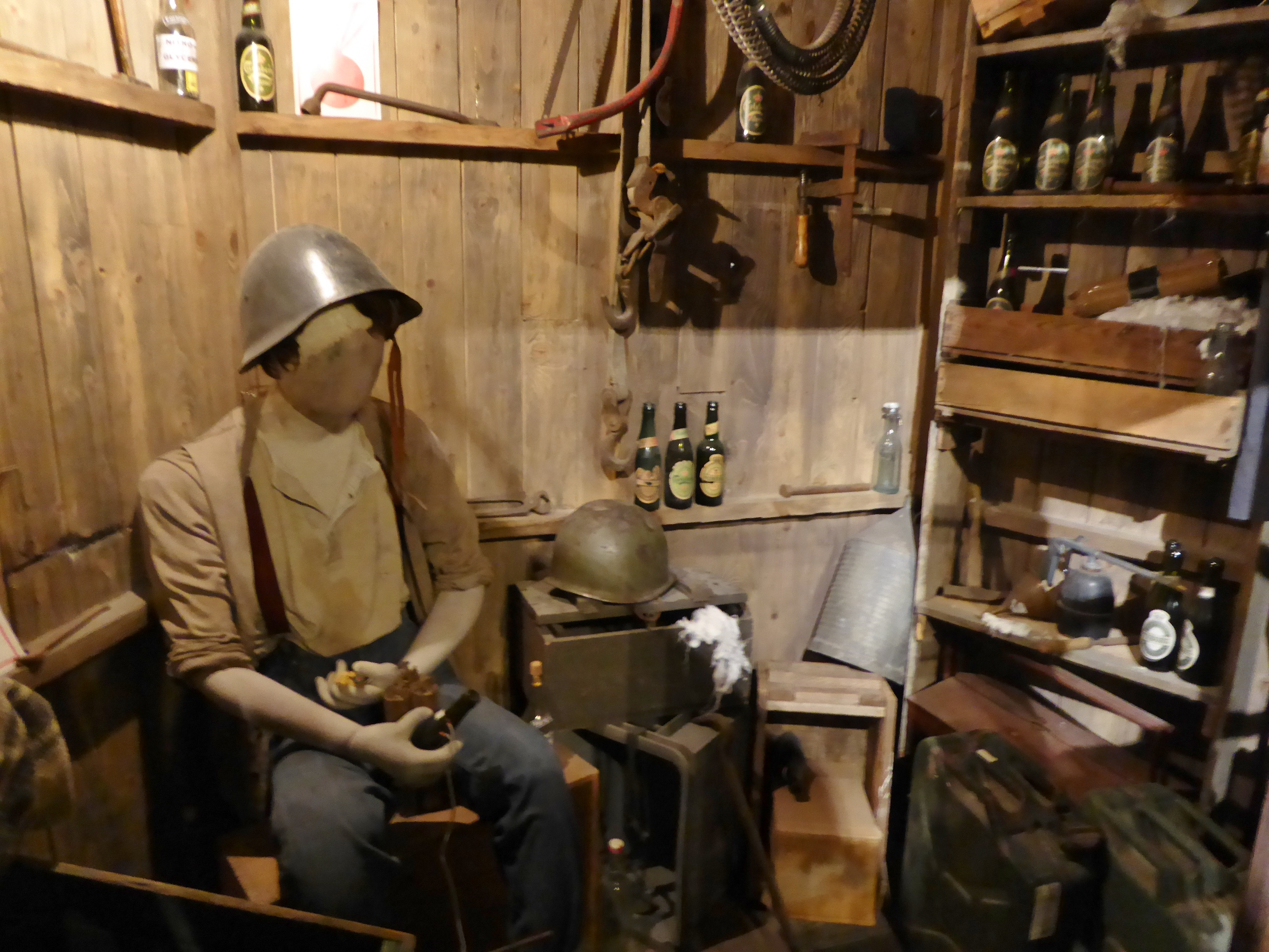 Recreation of the hut of Dynamit-Harry played by Preben Kaas from the Danish Olsen-banden film series in a special exhibition at Nordisk Film in Copenhagen. The actually sets from the 1969 movie Olsen-banden på spanden and the 1973 movie Olsen-banden går amok was scrapped when the making of each movie was finished.